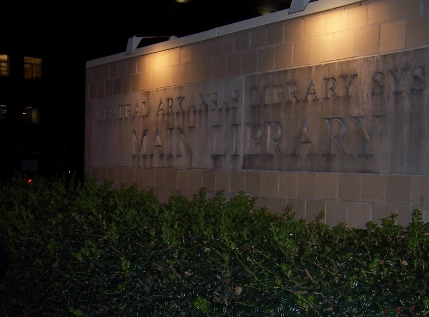 Sign outside main building in Little Rock of Central Arkansas Library System